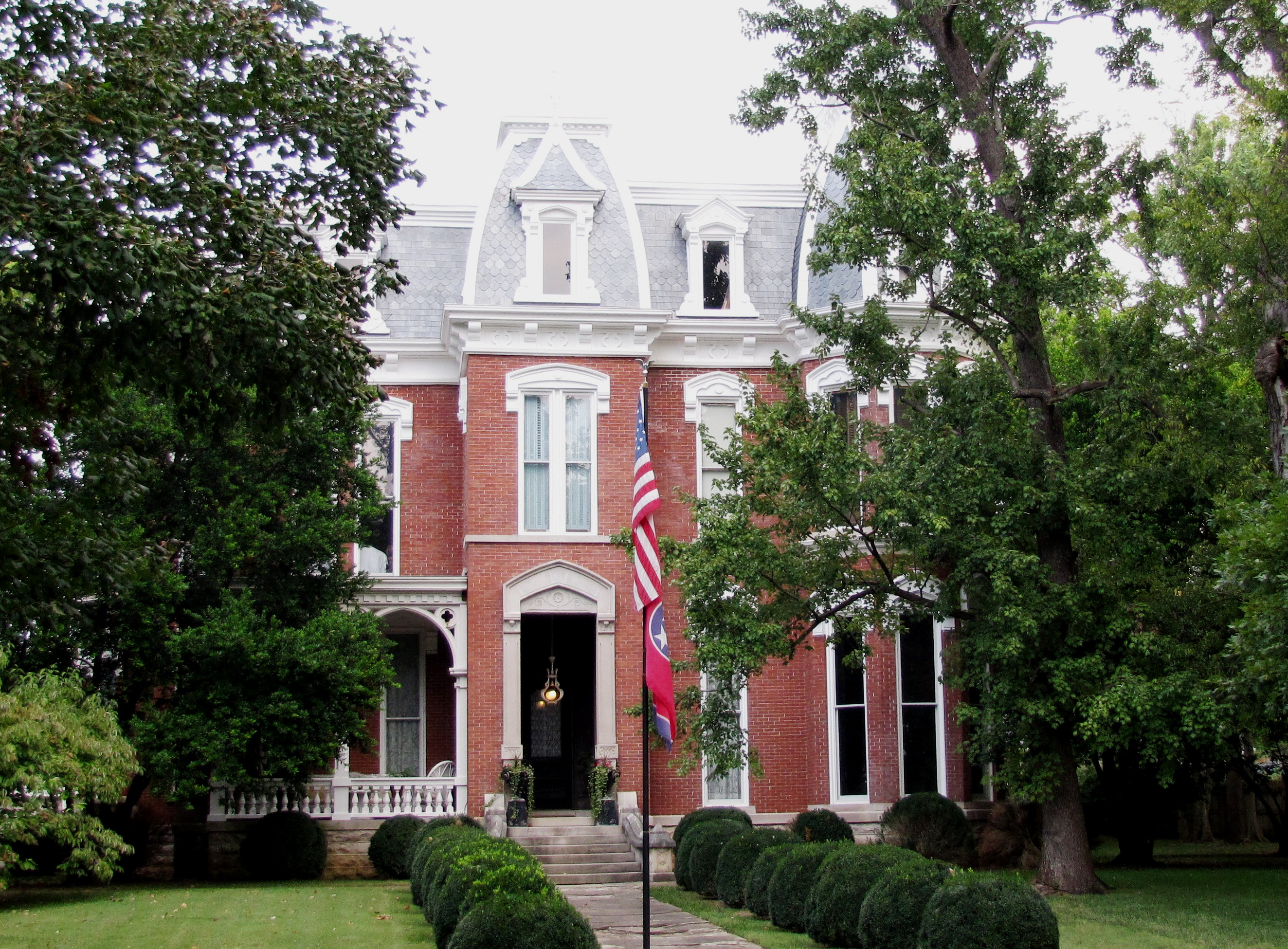 The Collier-Crichlow House (511 E. Main) in Murfreesboro, Tennessee, USA. Built in 1879, this house is now listed on the National Register of Historic Places.